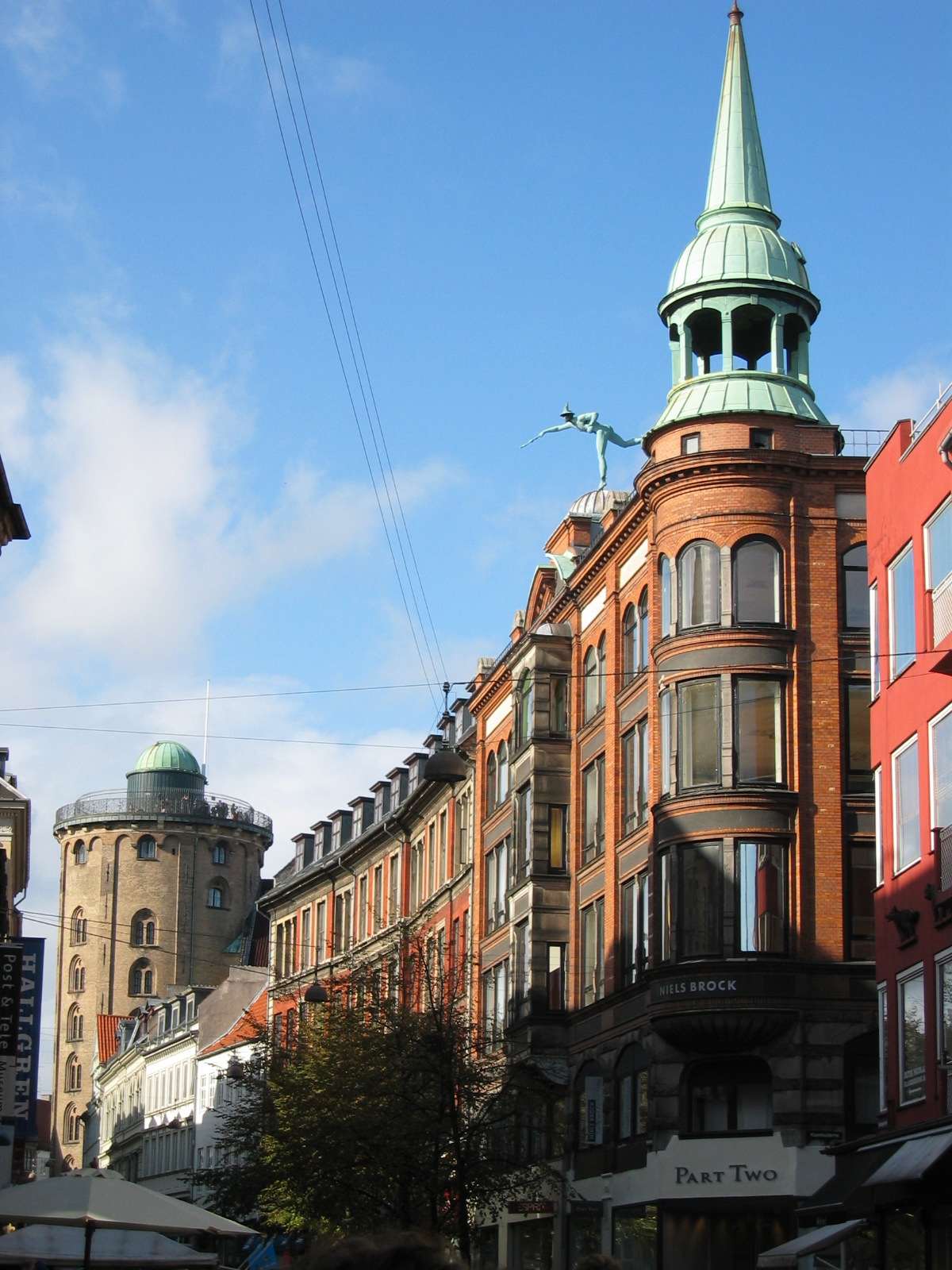 The building of the former Messen Department Store on Købmagergade with the Round Tower in the background in Copenhagen, Denmark. Designed by Emil Blichfeldt and built in 1895.